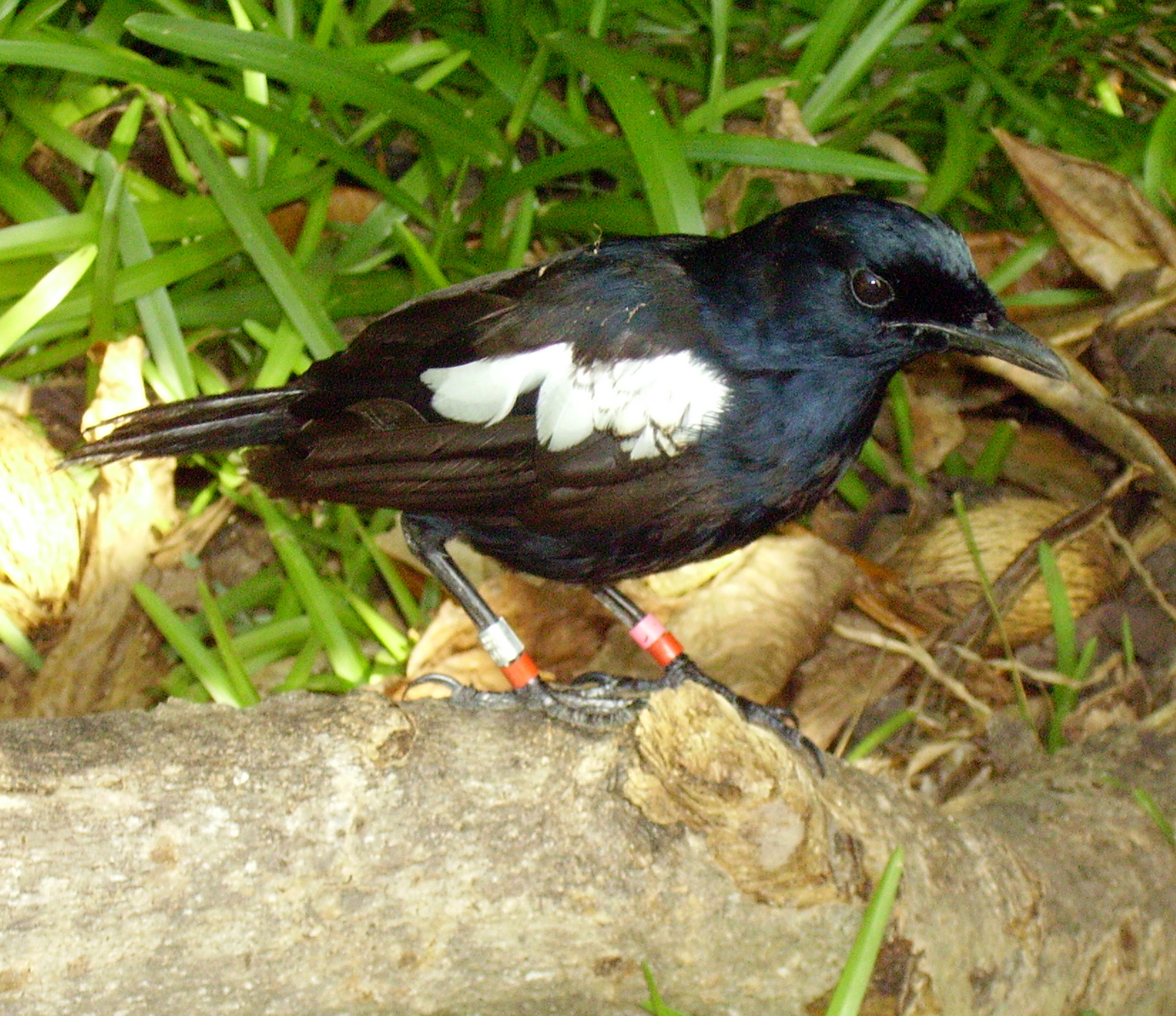 Seychelles-Magpie Robin (Copsychus Sechellarum), Female, island Cousin, Seychelles. Photo taken by User in May 2006